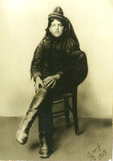 Vahram Der Parseghian, Dashnak courier in Van, 1917. Worked with both General Dro (Drastamat Kanayan) and Aram Manukian.